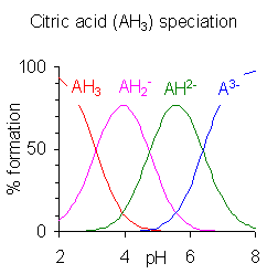 citric acid speciation* pKs1 = 3,13 pKs2 = 4,76 pKs3 = 6,4